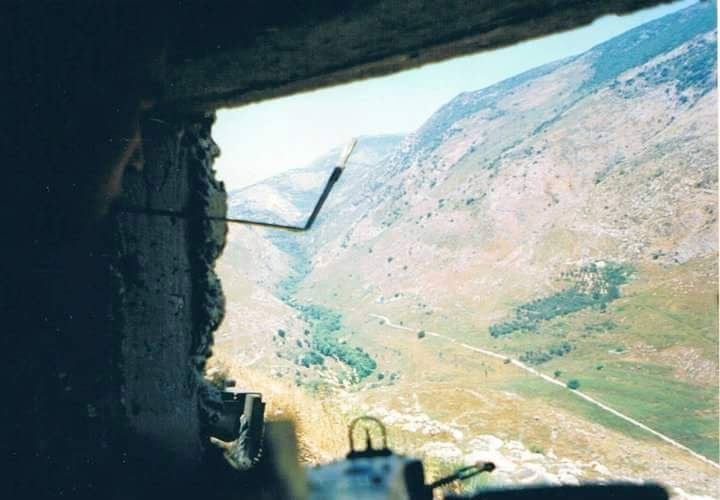 Brosh military base sounth lebanon 1998